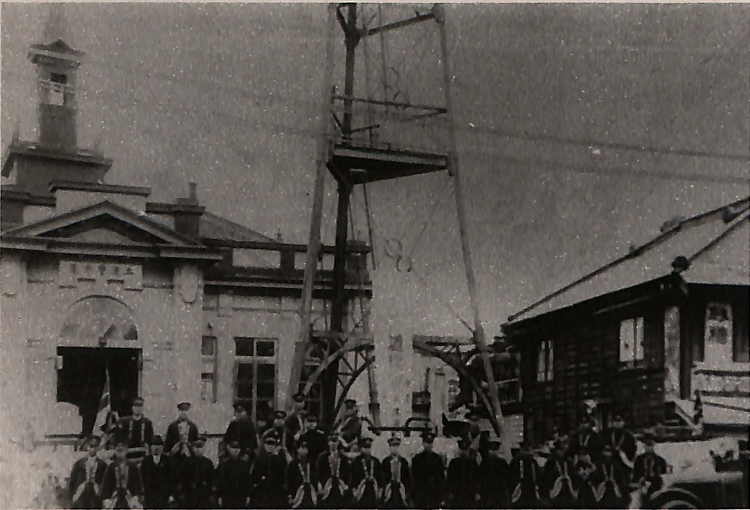 This was Tsuchiura police station in Tsuchiura, Ibaraki, Japan.